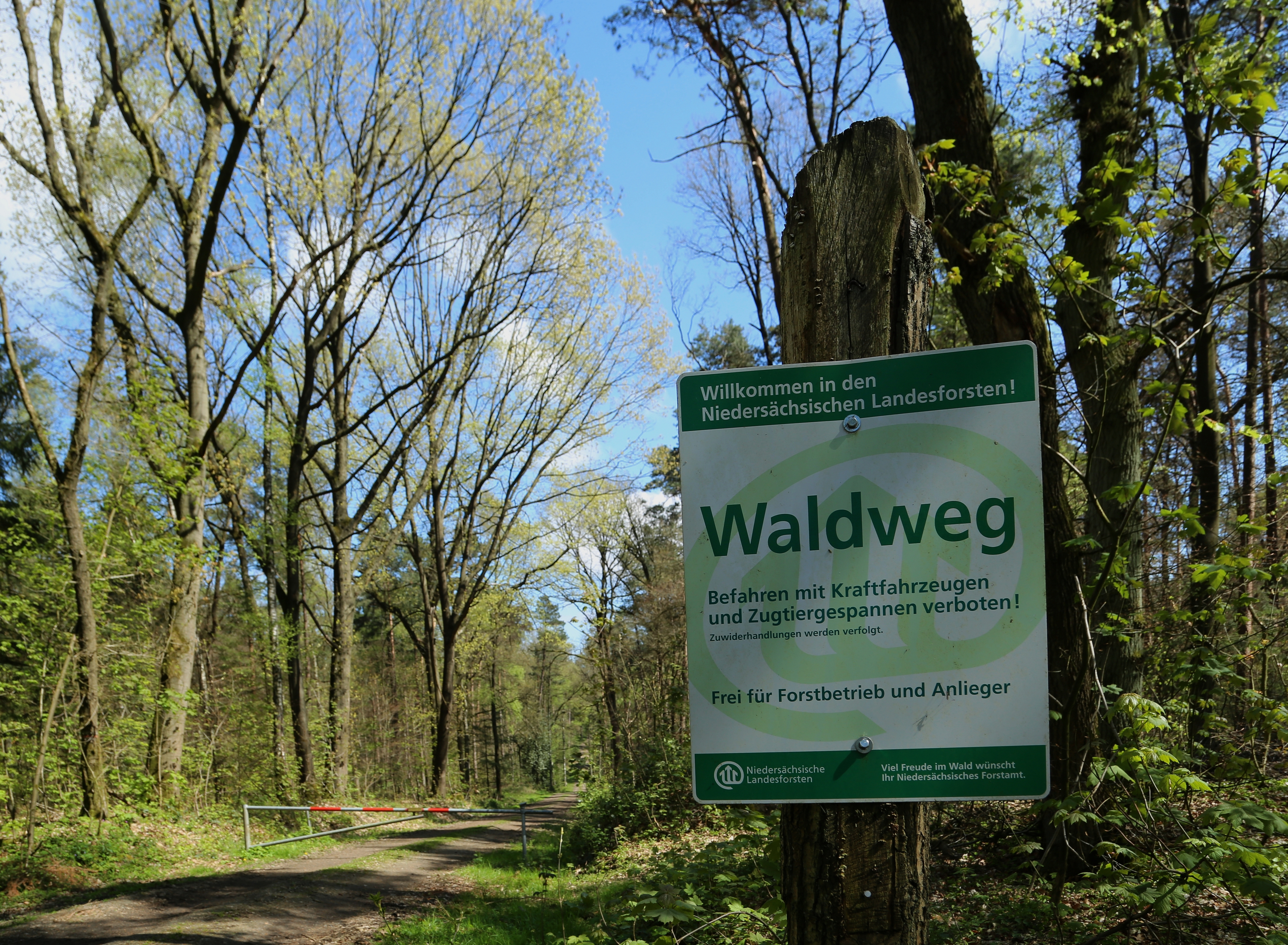 A track into Maiburg forest near Bippen, Samtgemeinde Fürstenau, Landkreis Osnabrück, Lower Saxony, Germany.